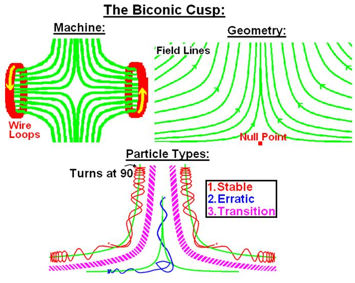 This image shows how a biconic cusp is generated, by placing two coils of wire close together. These are electromagnets, and are arranged so that the poles face one another. In the center is a null point of zero magnetic field. Particles moving far away from the null point experience a stable motion, while particles close to the null point are more erratic. Other information This image shows how a biconic cusp is generated, by placing two coils of wire close together. These are electromagnets, and are arranged so that the poles face one another. In the center is a null point of zero magnetic field. Particles moving far away from the null point experience a stable motion, while particles close to the null point are more erratic.